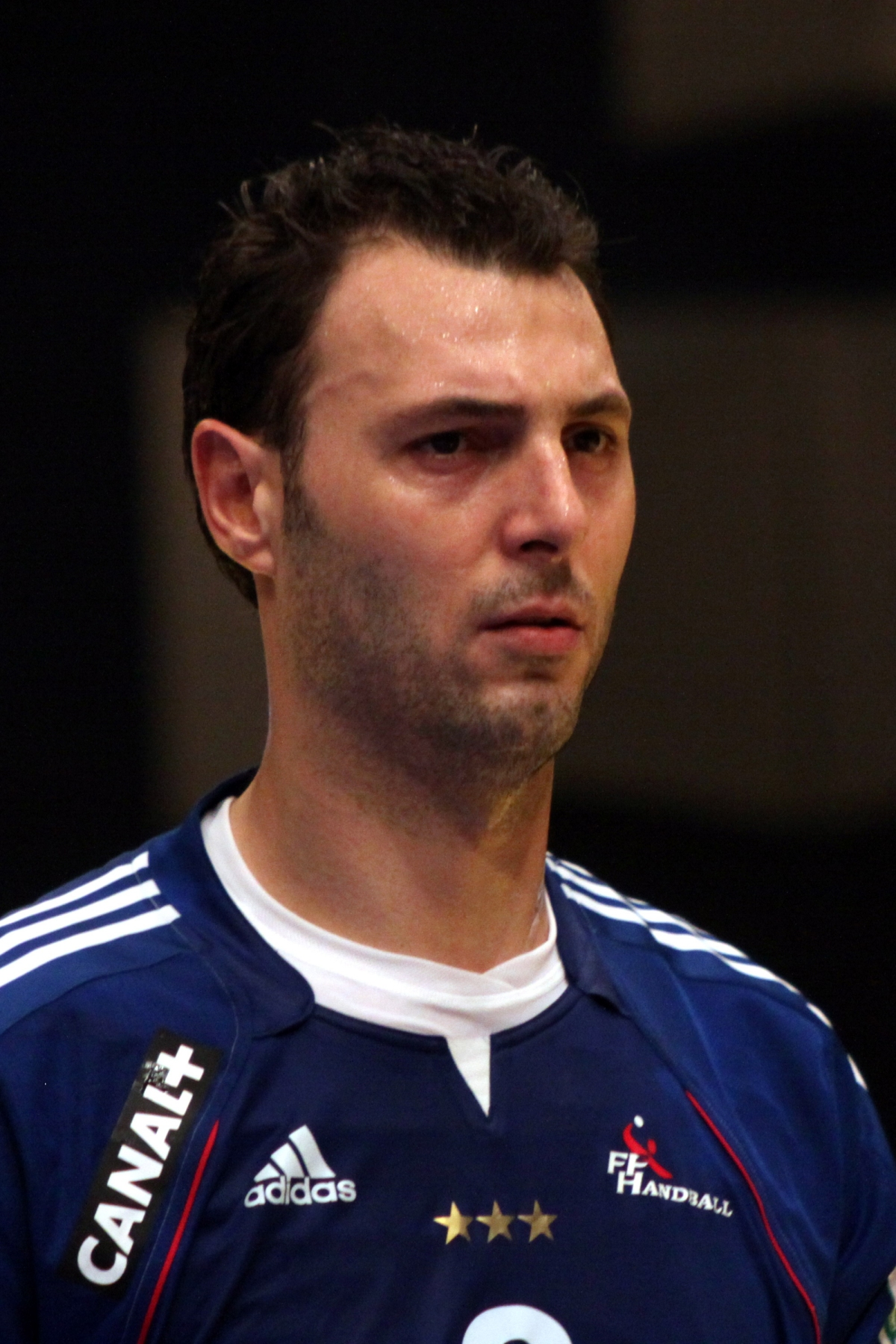 Jérôme Fernandez (BM Ciudad Real), France national handball team